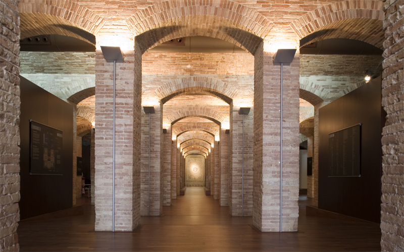 MhV Entry hall